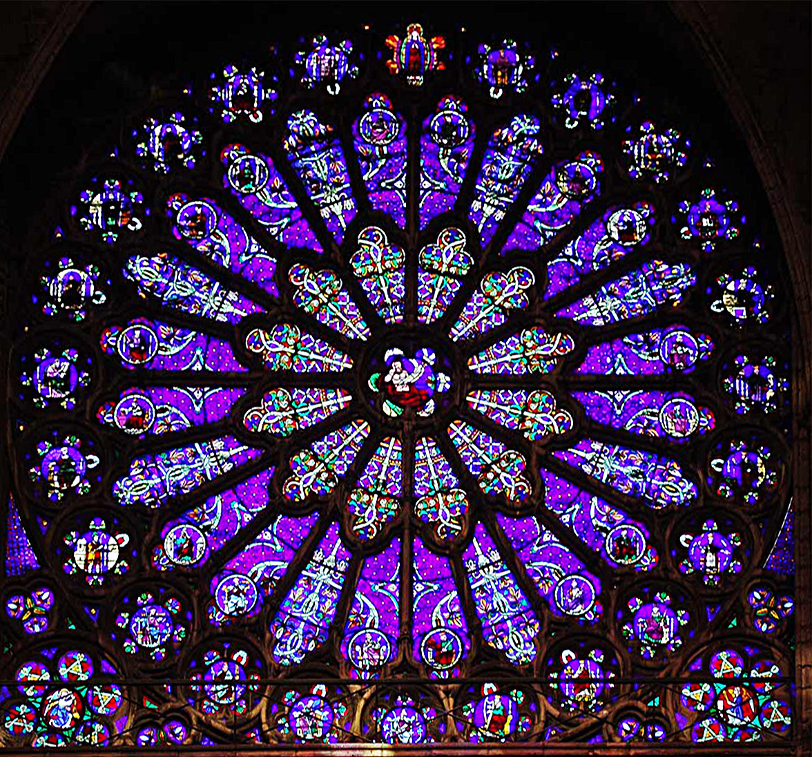 Rose window on south end of transpet arm, St. Denis Cathedral, St. Denis, France. The stained glass depicts the Tree of Jesse (ancestors of Christ from Jesse onwards) in the Art Nouveau style.